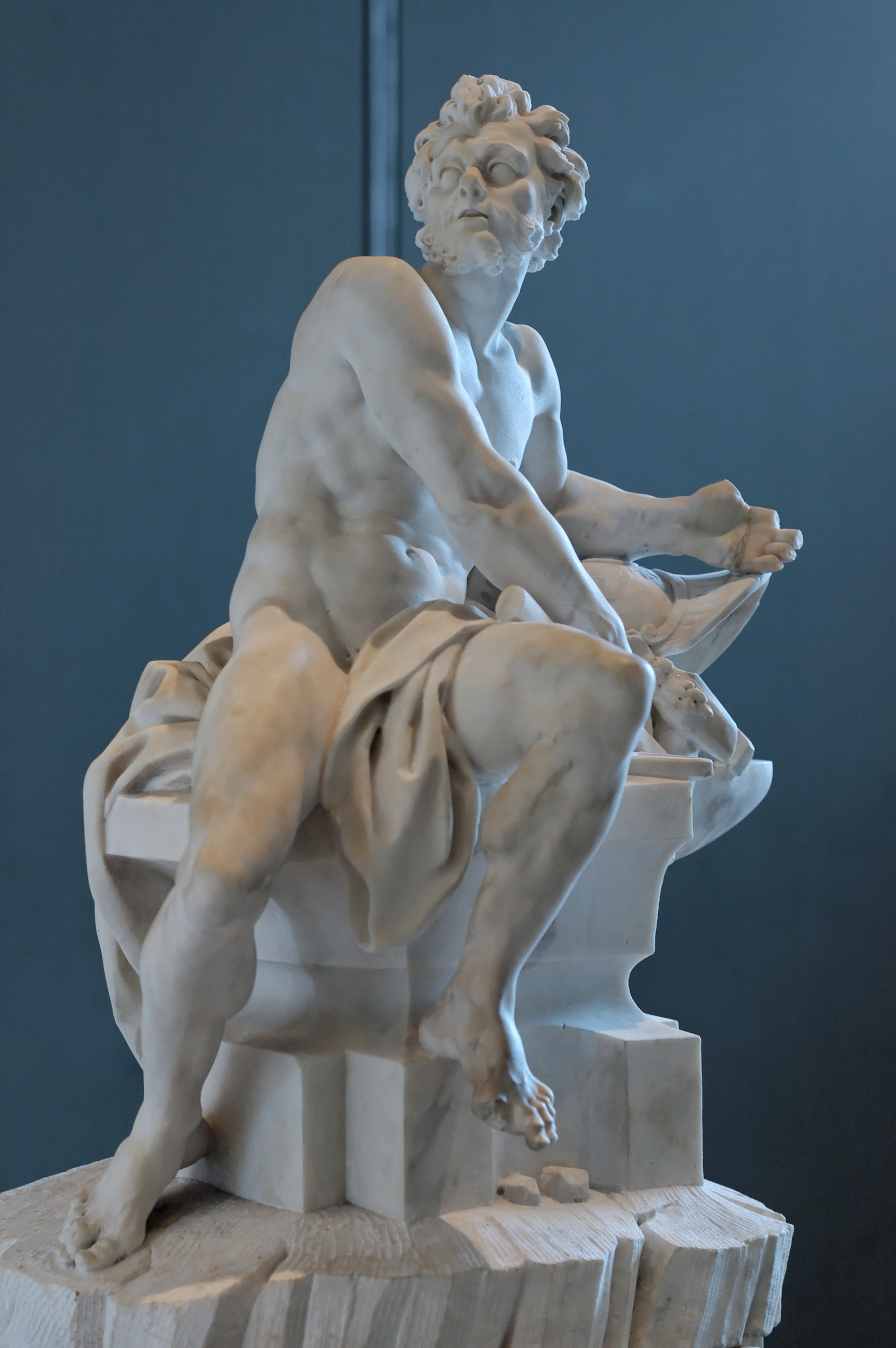 Vulcan. Marble, reception piece for the French Royal Academy, 1742.